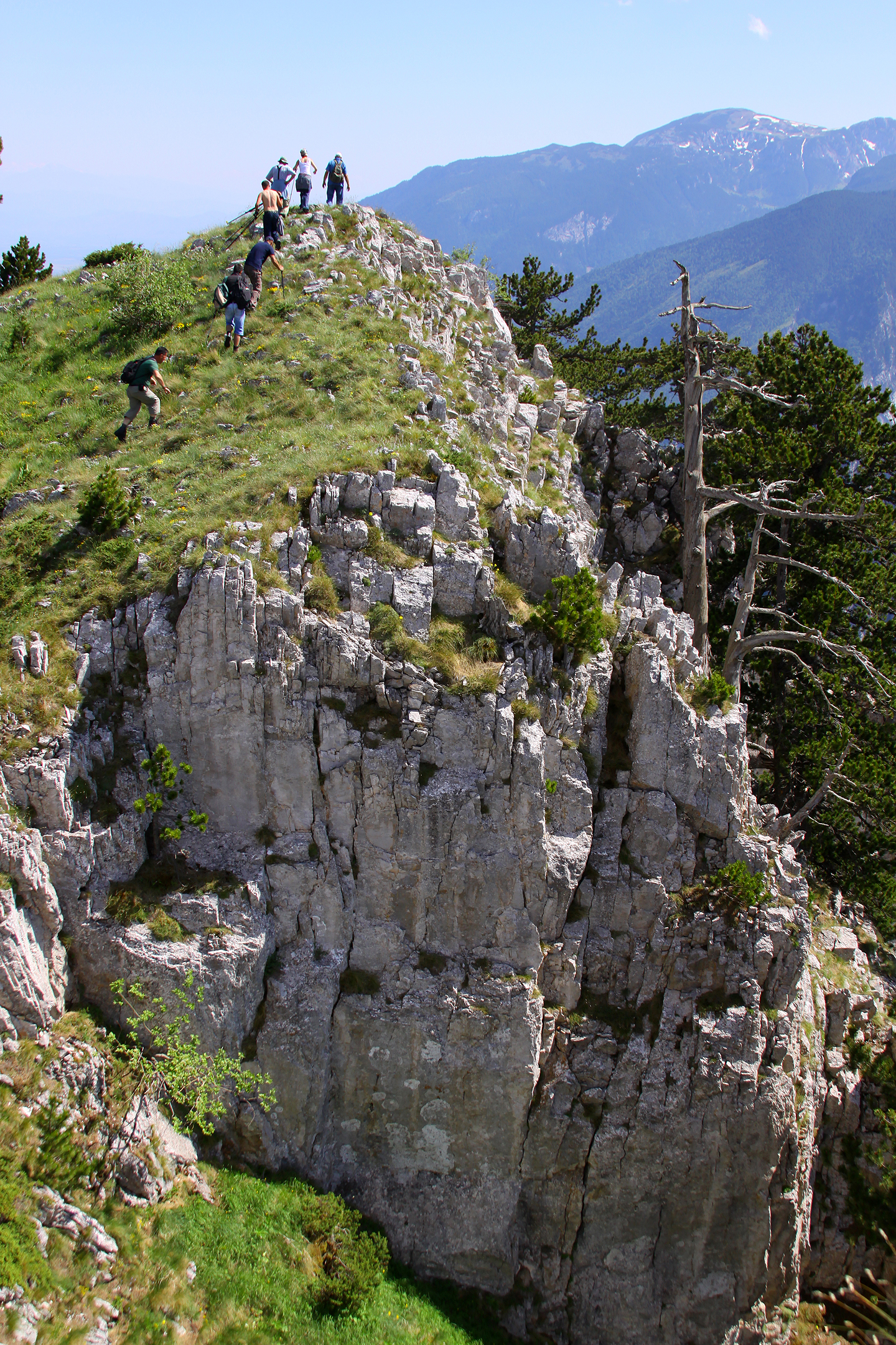 Hasani peak 1907m. is located above Kosovo's western city of Peja